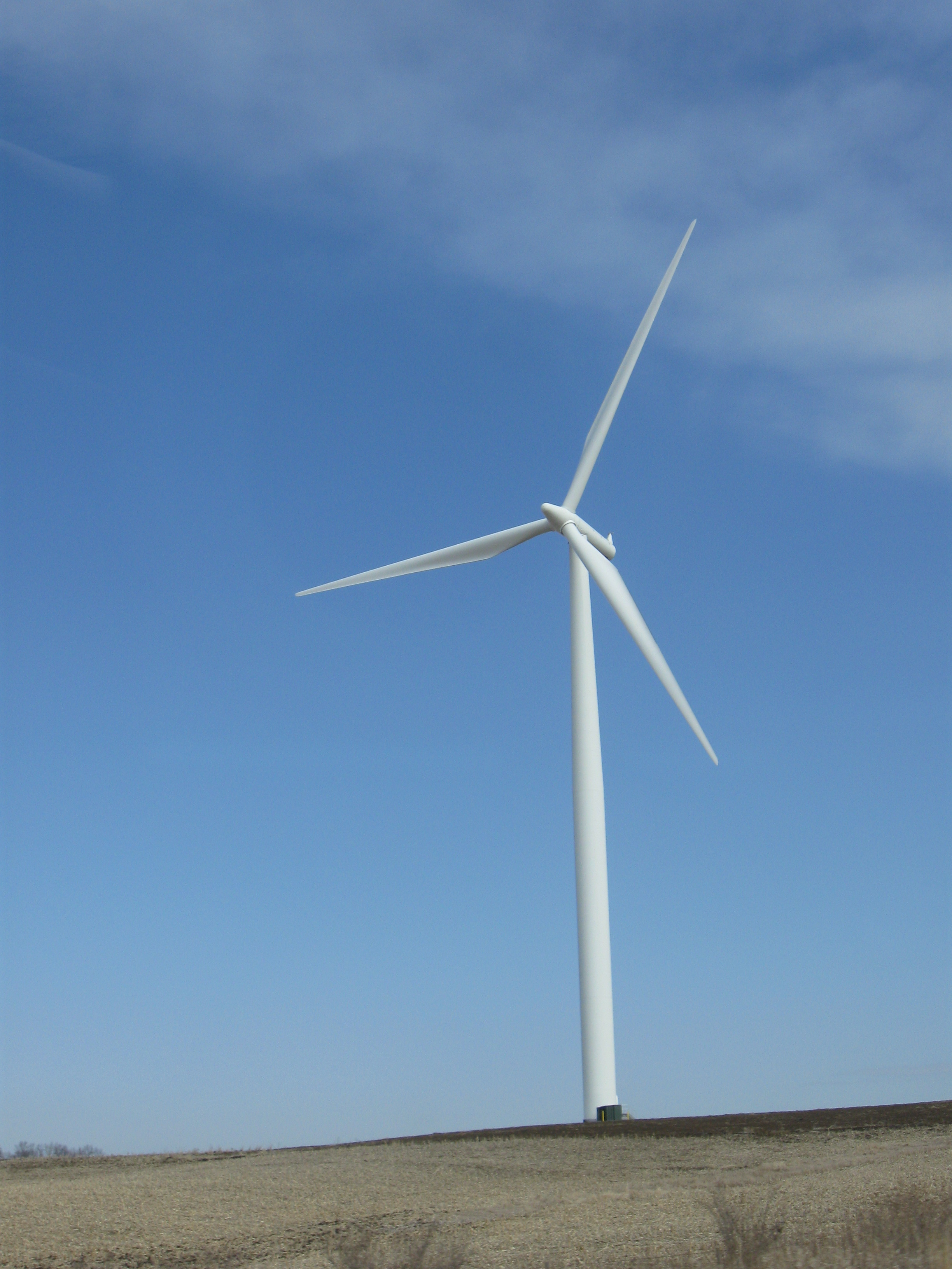 Wind turbine near Walnut, north of I-80.